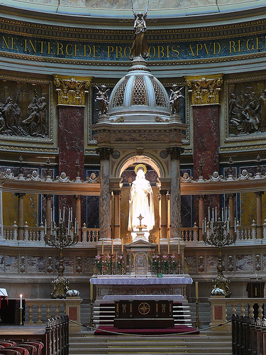 The Saint Stephen's Basilica in Budapest